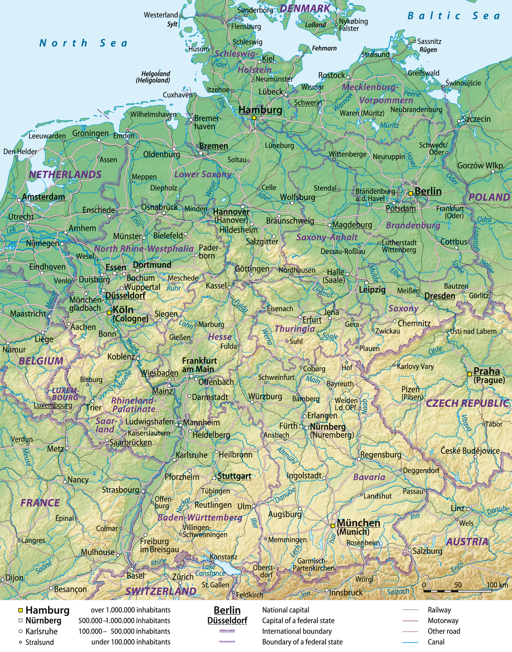 General map of Germany, English version